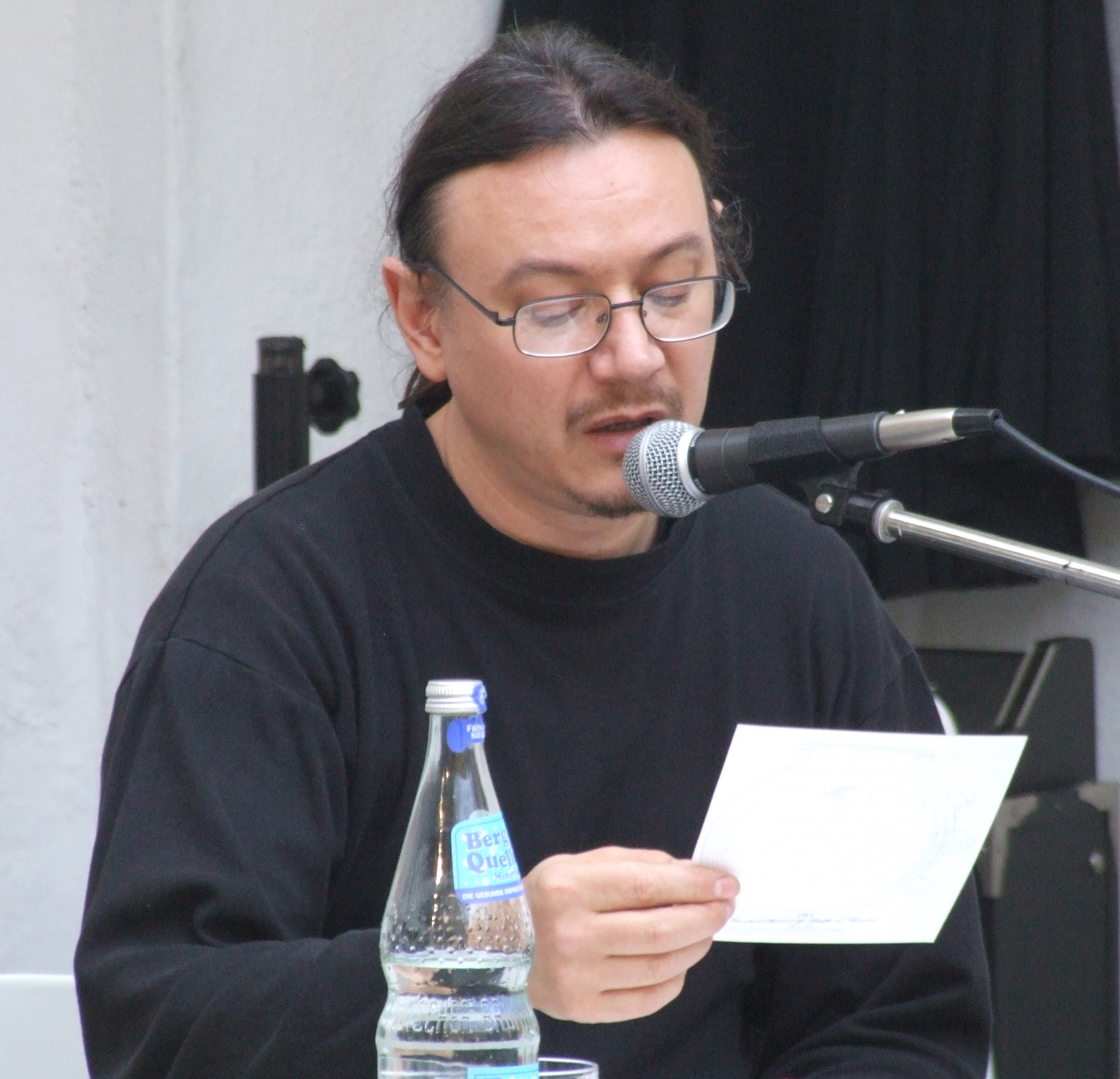 German painter an performance artist Martin Eckrich, Schifferstadt; Here at the 2. Speyerer Performance Days in Speyer, Germany